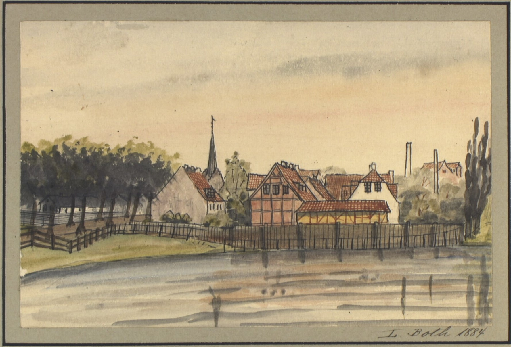 Buildings on Lammefælleden at present-day Nørre Allé in Copenhagen, Denmark